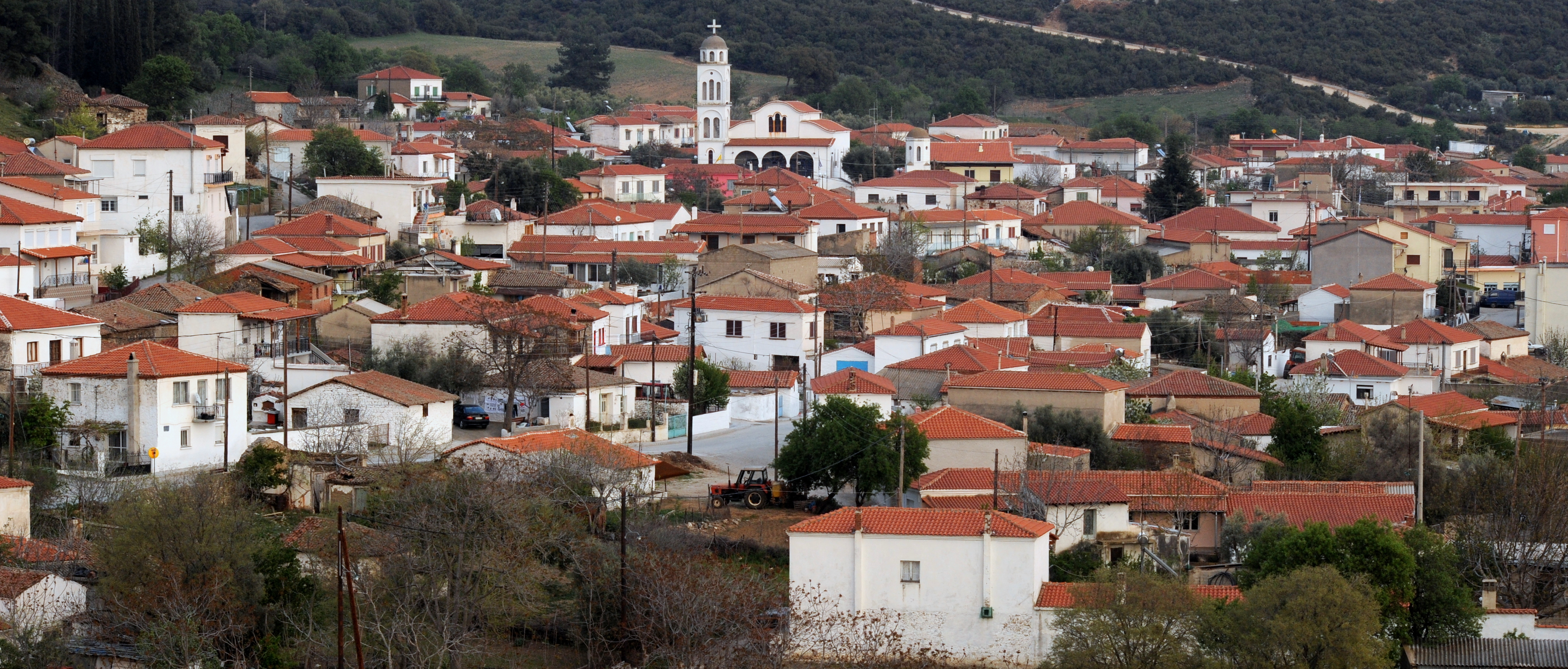 Panoramic view of Gratini village, Rhodope, Thrace, Greece.